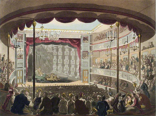 The interior of Sadler's Wells theatre in around 1809. By Thomas Rowlandson, and Augustus Charles Pugin, aquatinted by J. Bluck.